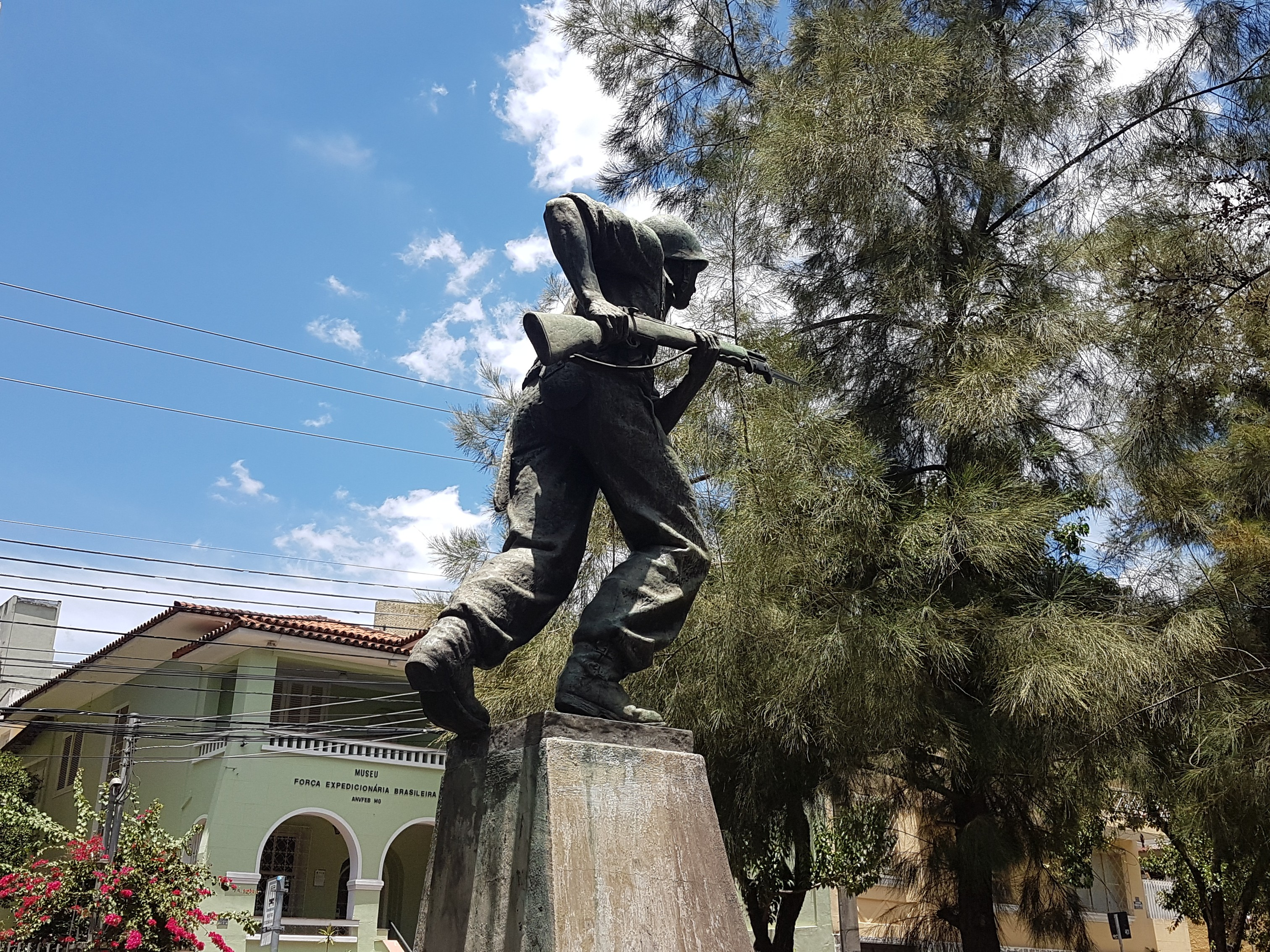 Monument of a Brazilian soldier in attack position, a tribute to the participation of the Brazilian Expeditionary Force in World War II, Belo Horizonte, Minas Gerais, Brazil.